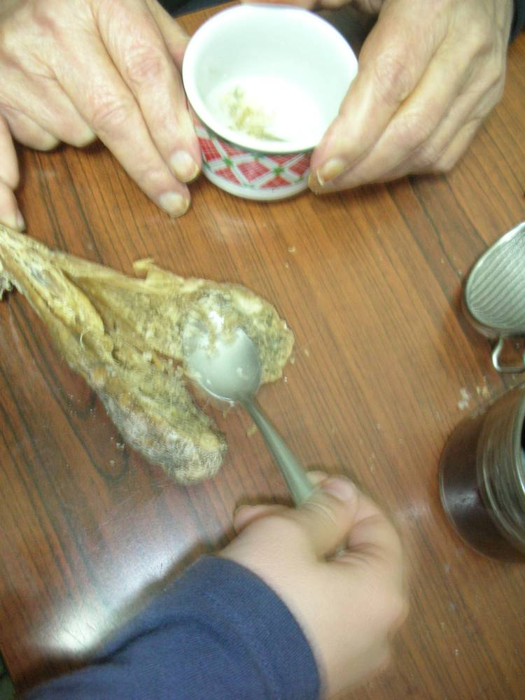 Rennet extraction from the stomach of a lamb to produce Basque mamia, a sheep-milk based desert.